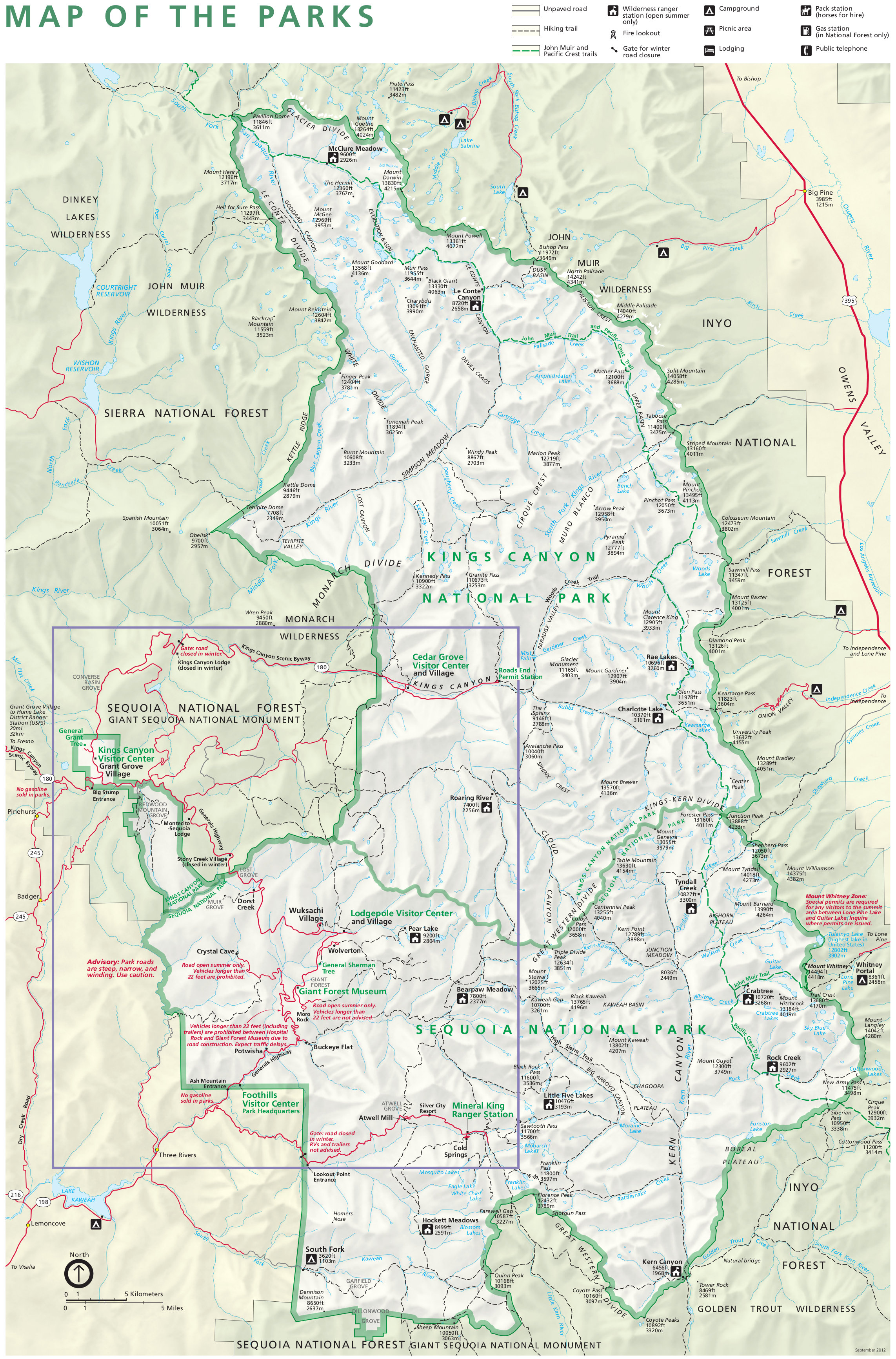 Official Sequoia and Kings Canyon National Park map, showing all of both Kings Canyon and Sequoia.